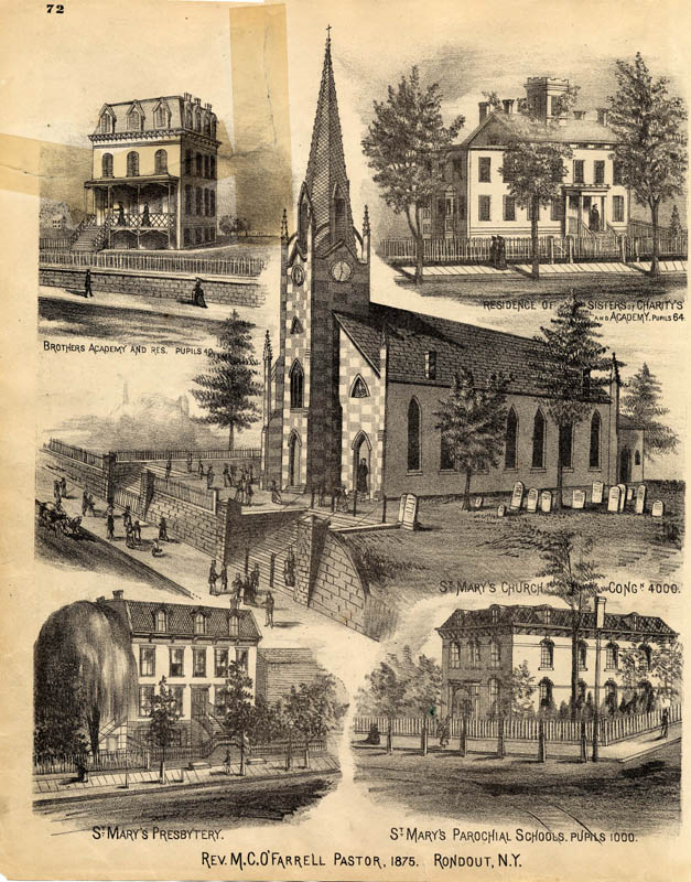 Scanned page of an atlas of Ulster County, New York prepared by F. W. Beers and first published in 1875.